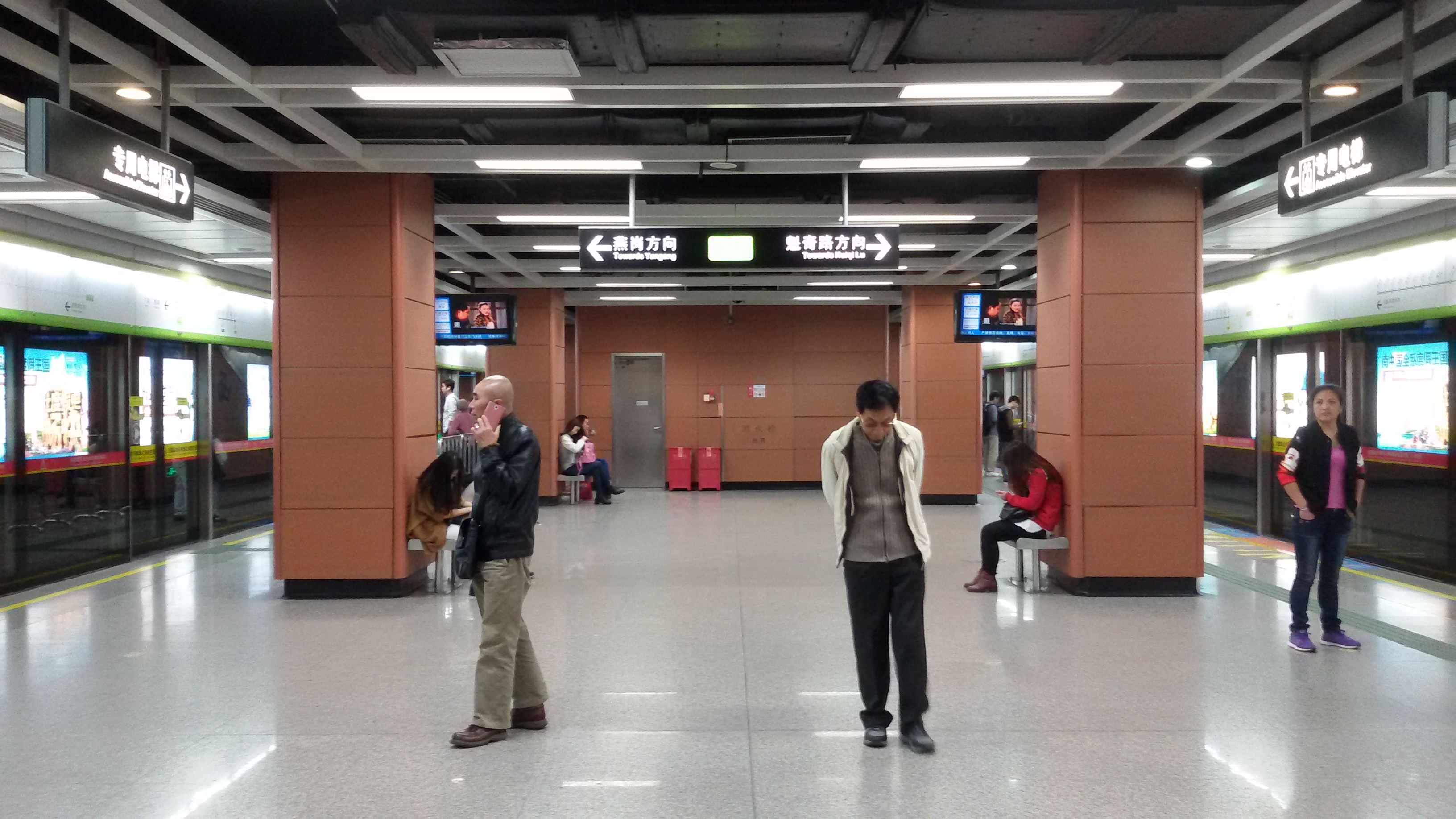 粵語: 廣州地鐵同佛山地鐵，西朗站嘅月台（佛山地鐵1號綫）。